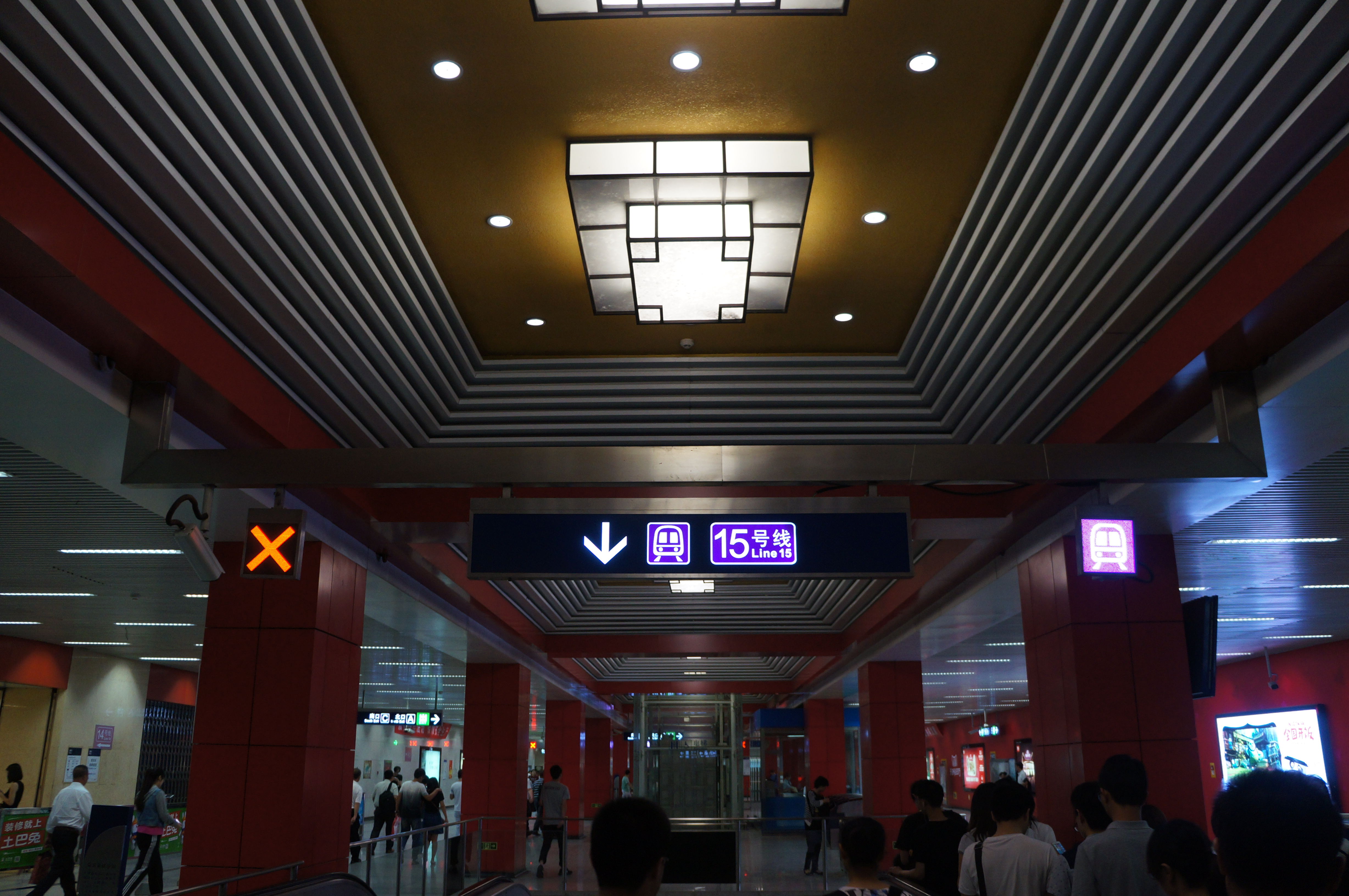 201606 Transfer floor of Wangjing Station